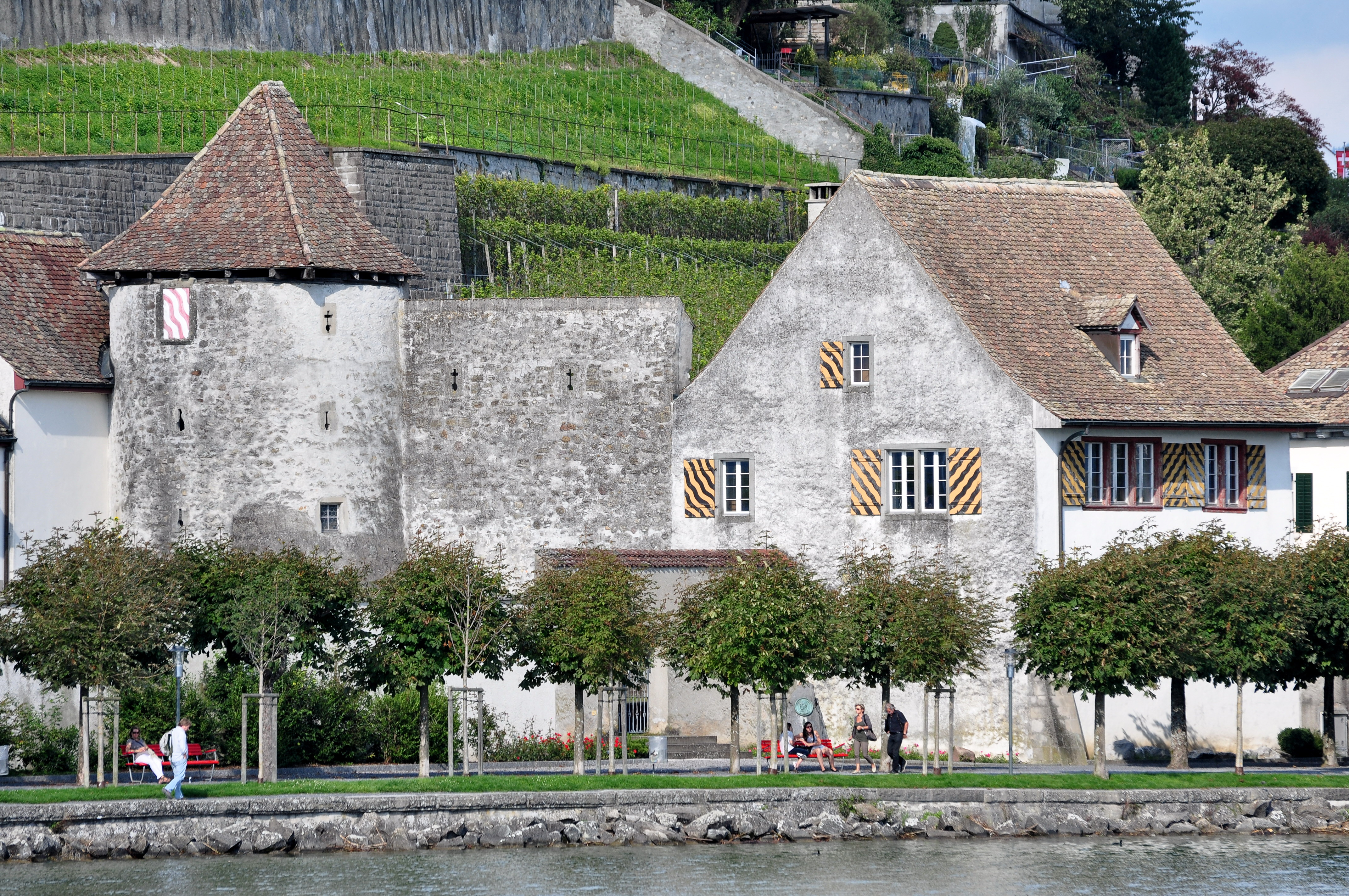 Rapperswil (Switzerland) : Einsiedlerhaus and Endingerturm tower, as seen from Zürichsee-Schifffahrtsgesellschaft (ZSG) paddle steamship Stadt Zürich, Lindenhof towards the castle in the background.